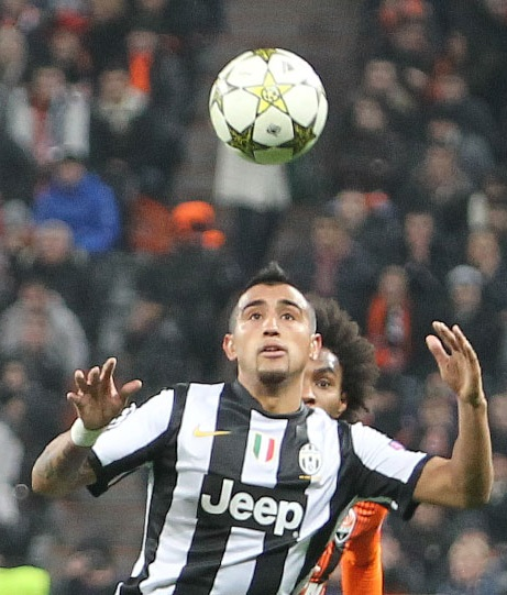 Arturo vidal players of juventus